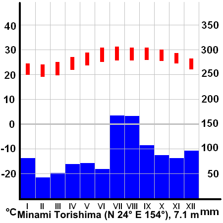 Climate diagram of Minami Torishima(Marcus Island), Japan. Map based Image:ClimateTemplate.PNG Source:JMA data